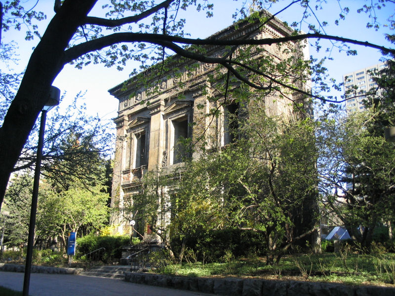 Own work